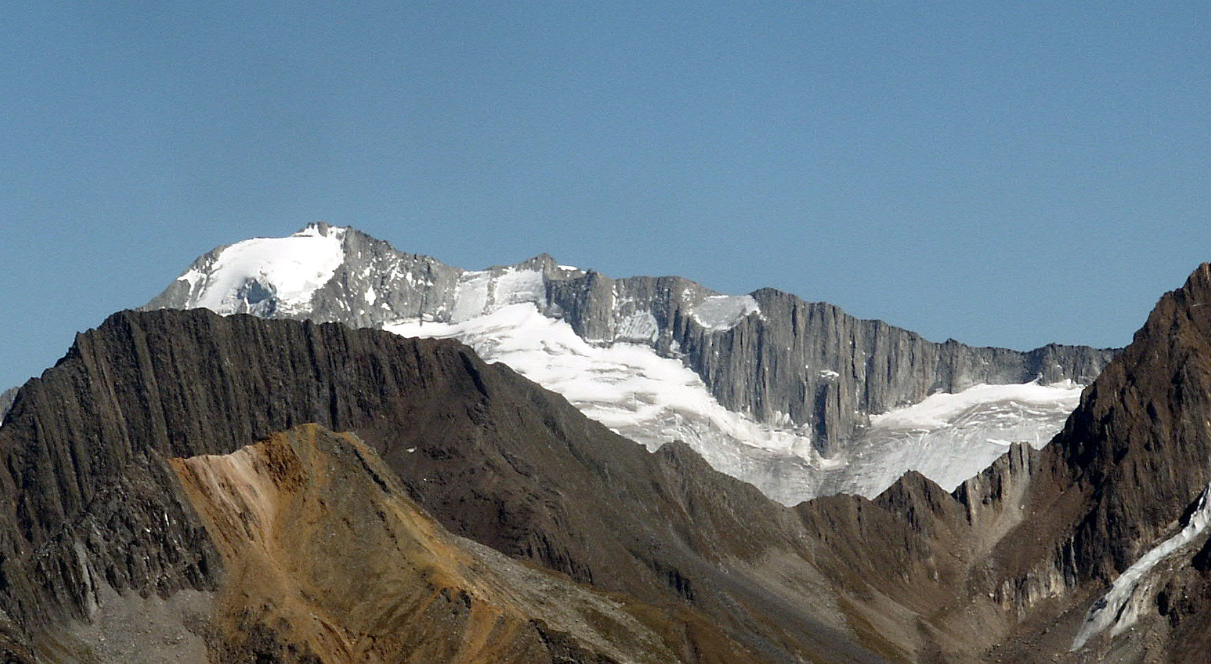 Großer Möseler as seen from the Pfitscher Joch, Zillertal, Austria